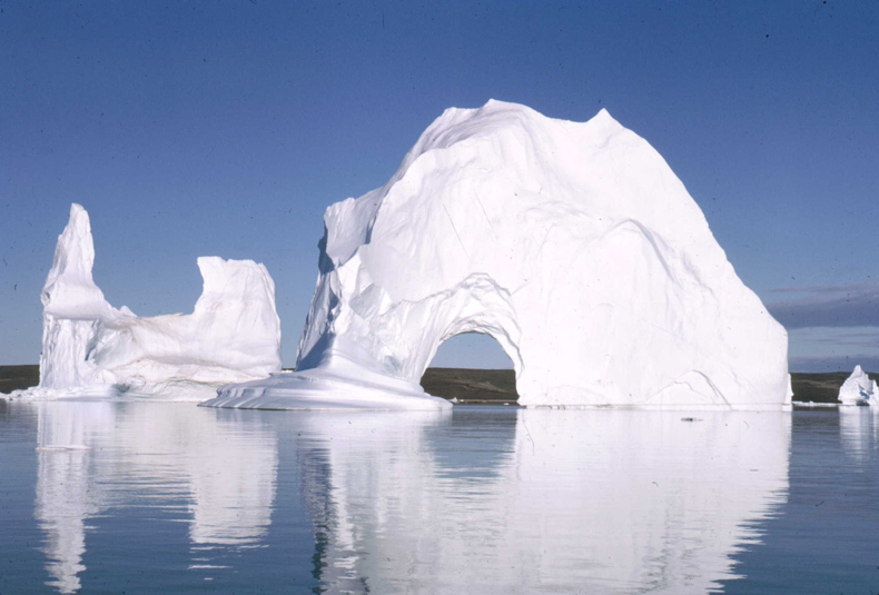 Photograph taken by myself of icebergs at Scoresby Sund, East Greenland, July, 1970.